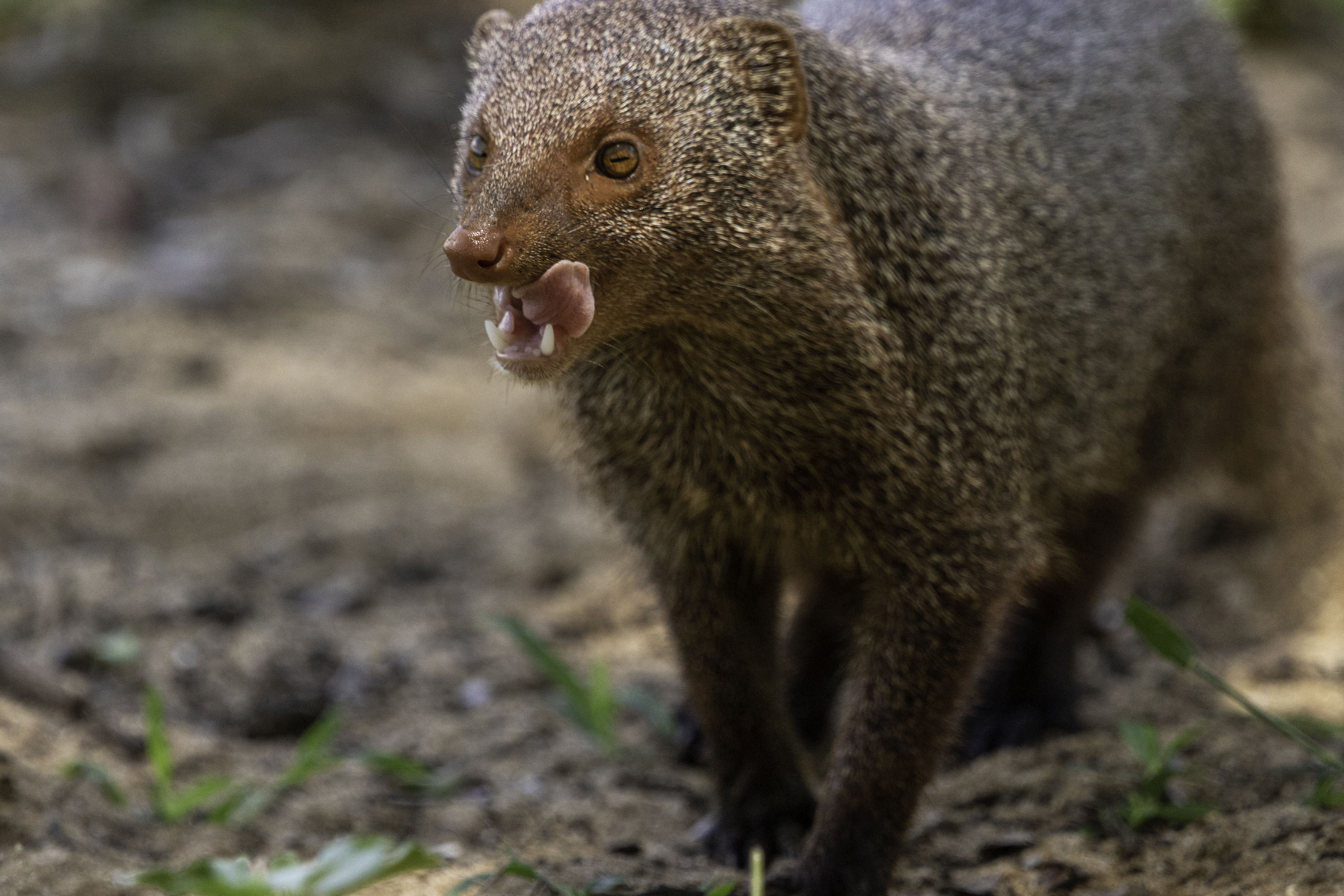 Ruddy mongoose, Yala National Park, Sri Lanka